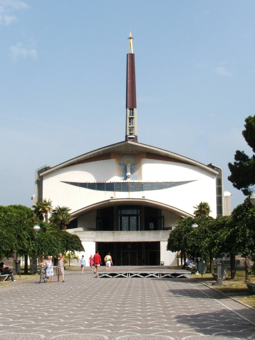 Lignano Sabbiadoro (UD), Italy - church